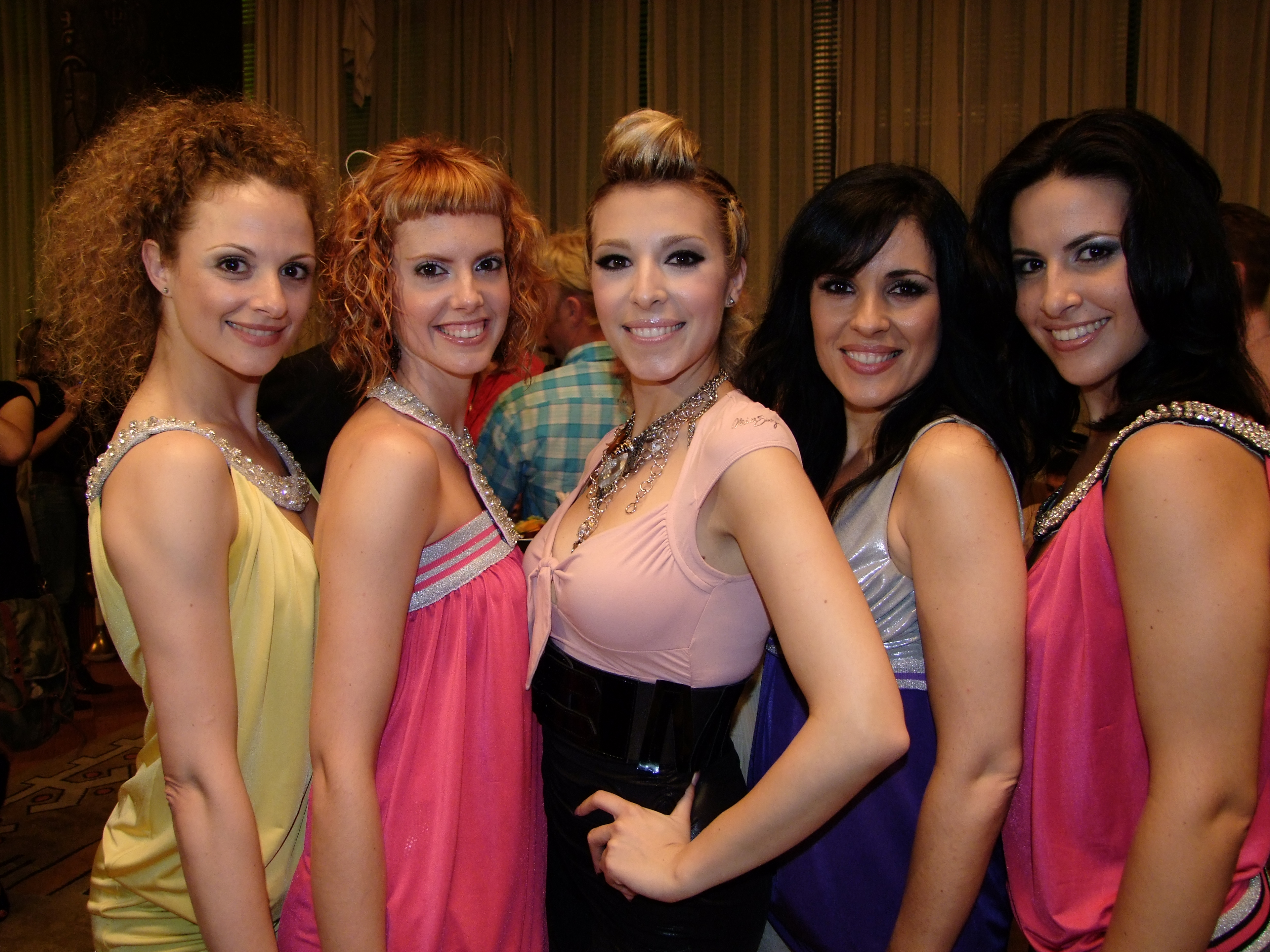 Gisela (in the middle) from Andorra with her singing and dancing group at a welcome party in Belgrade, Serbia, May 2008